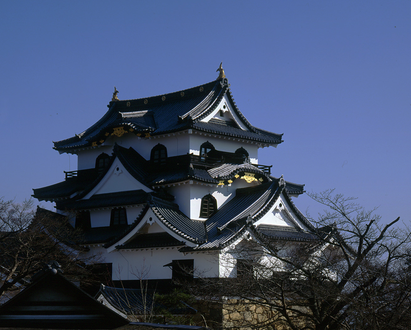 Hikone Castle, Hikone, Shiga prefecture, Japan. I took this photo.